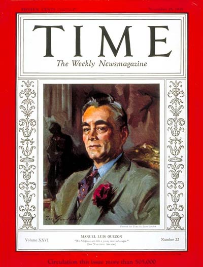 Manuel L. Quezon on Time magazine cover, 1935.